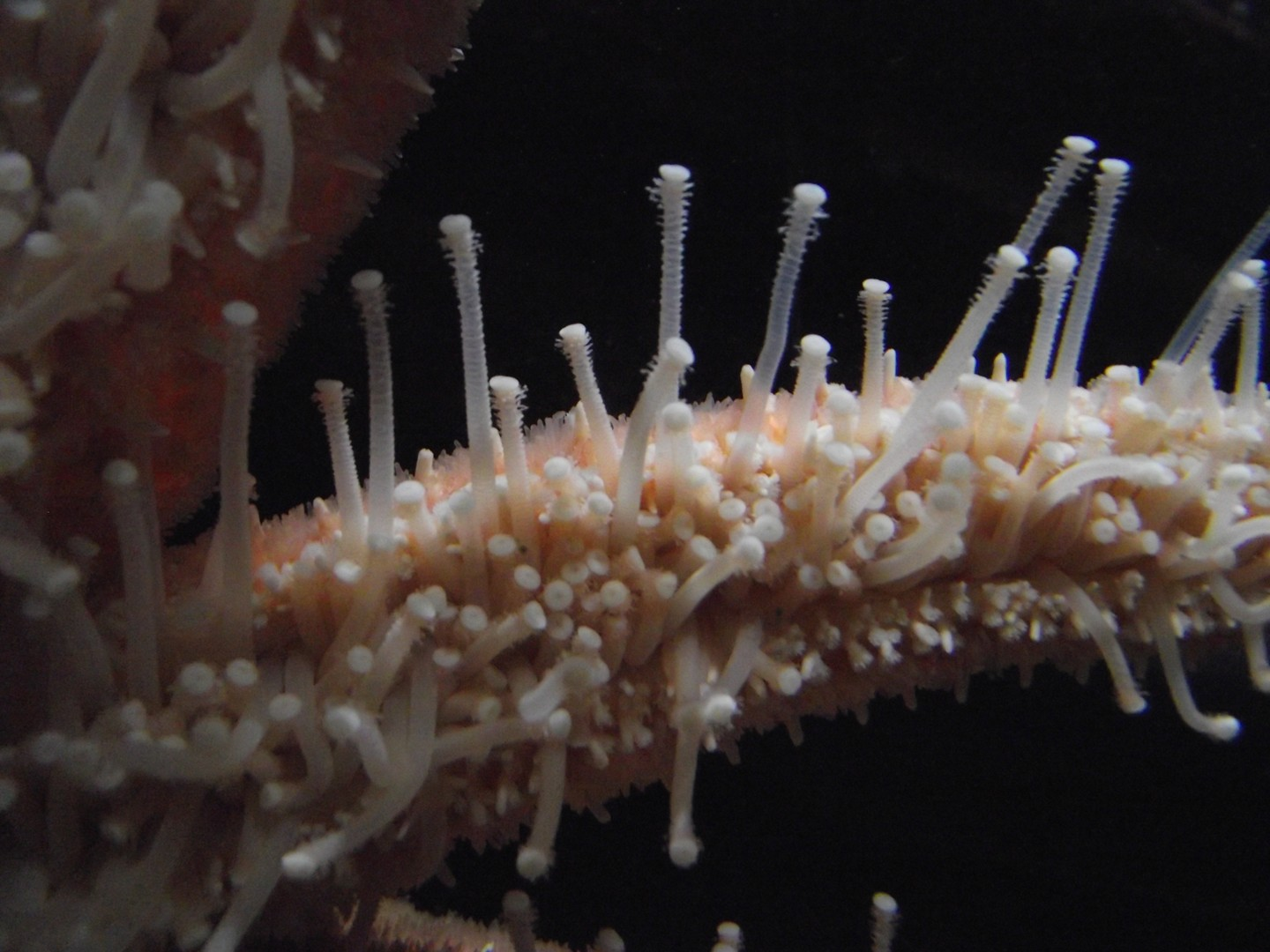 Tube feet of Pycnopodia helianthoides at the Birch Aquarium, San Diego, California, USA.